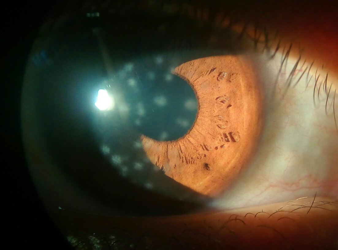 Adenoviral keratitis of a 24 years old girl